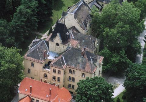 Segesd, Hungary, aerialphotography